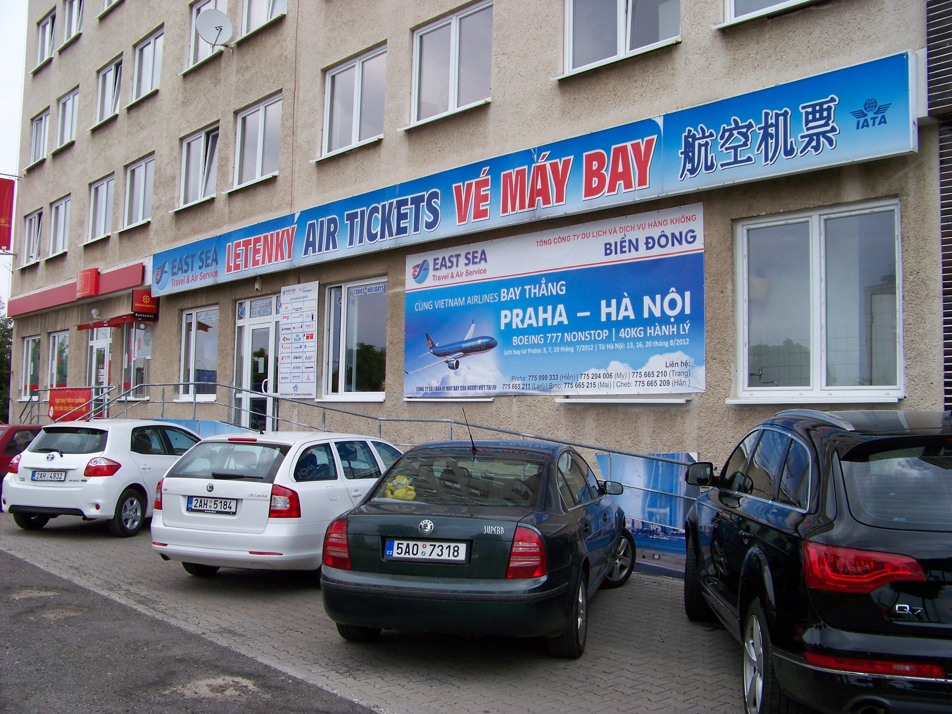 Prague-Písnice, the Czech Republic. TTTM Sapa, Libušská 319/126, air ticket office.